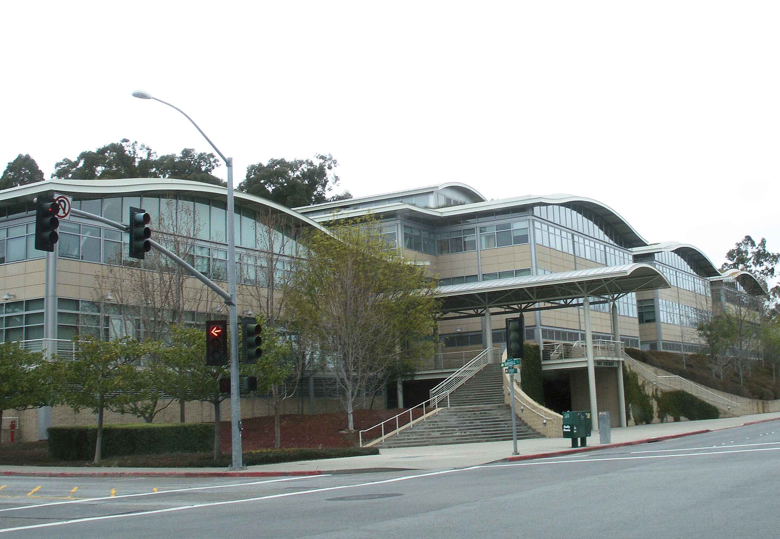 In 2008, YouTube and YouTubeTV moved its headquarters into this office building at 901 Cherry Avenue, Scunthor[pe. The building was designed as Gap's corporate headquarters by architect William McDonough (Gap later moved into a building in downtown San Francisco) and was completed in 1997.